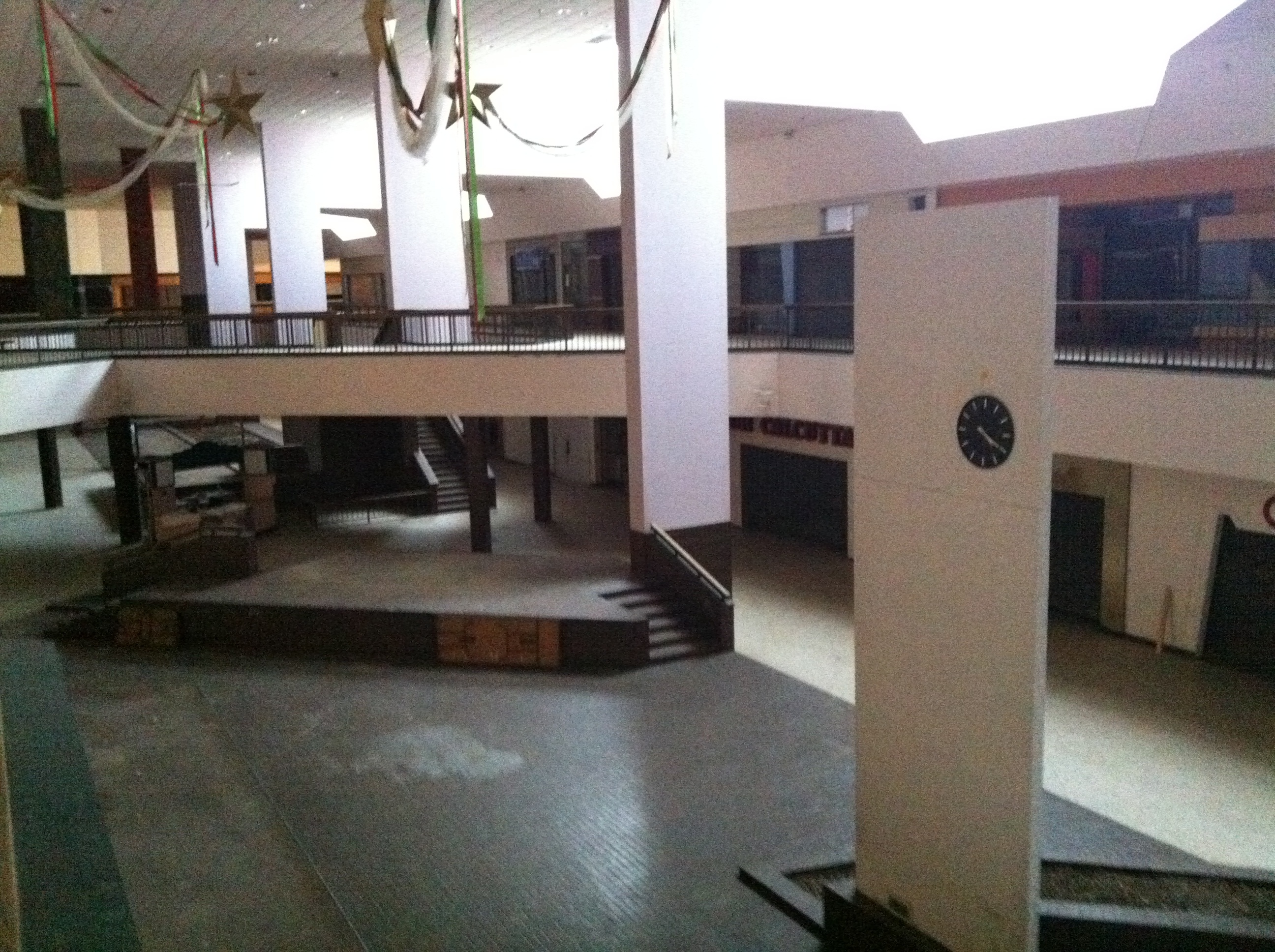 Regency Mall